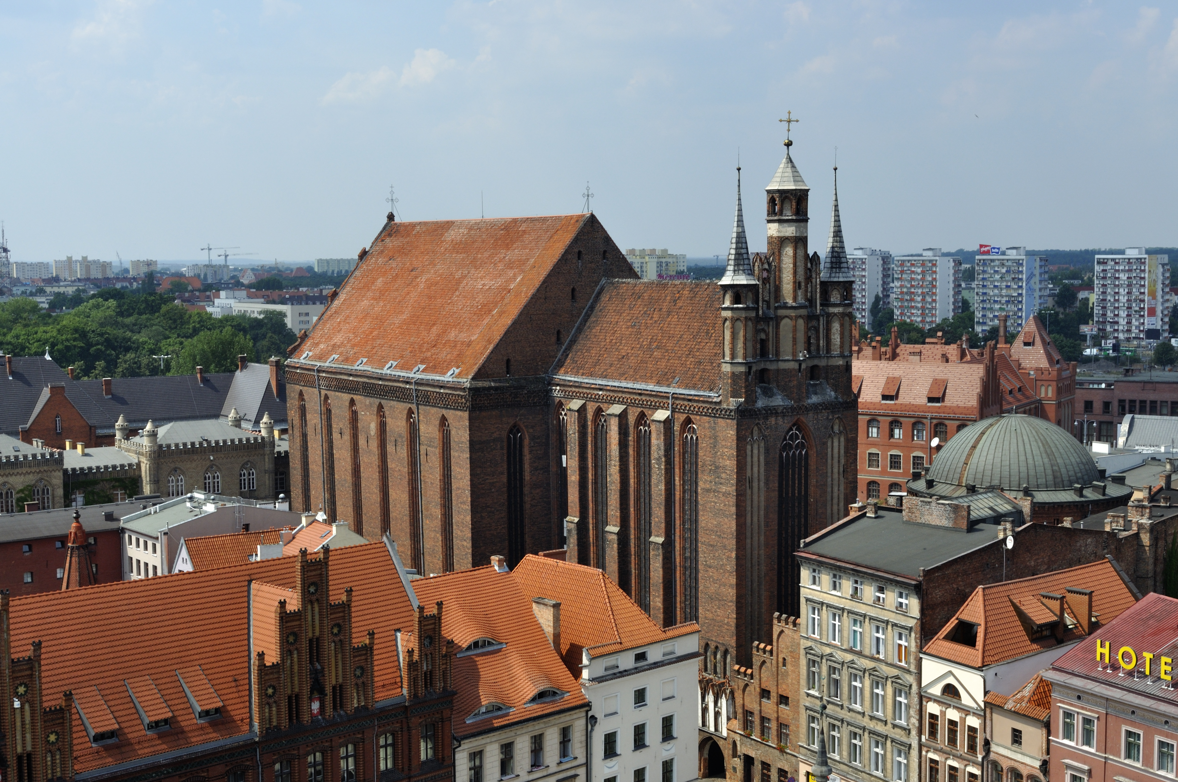 Picture taken in Toruń after Wikimania 2010 conference.